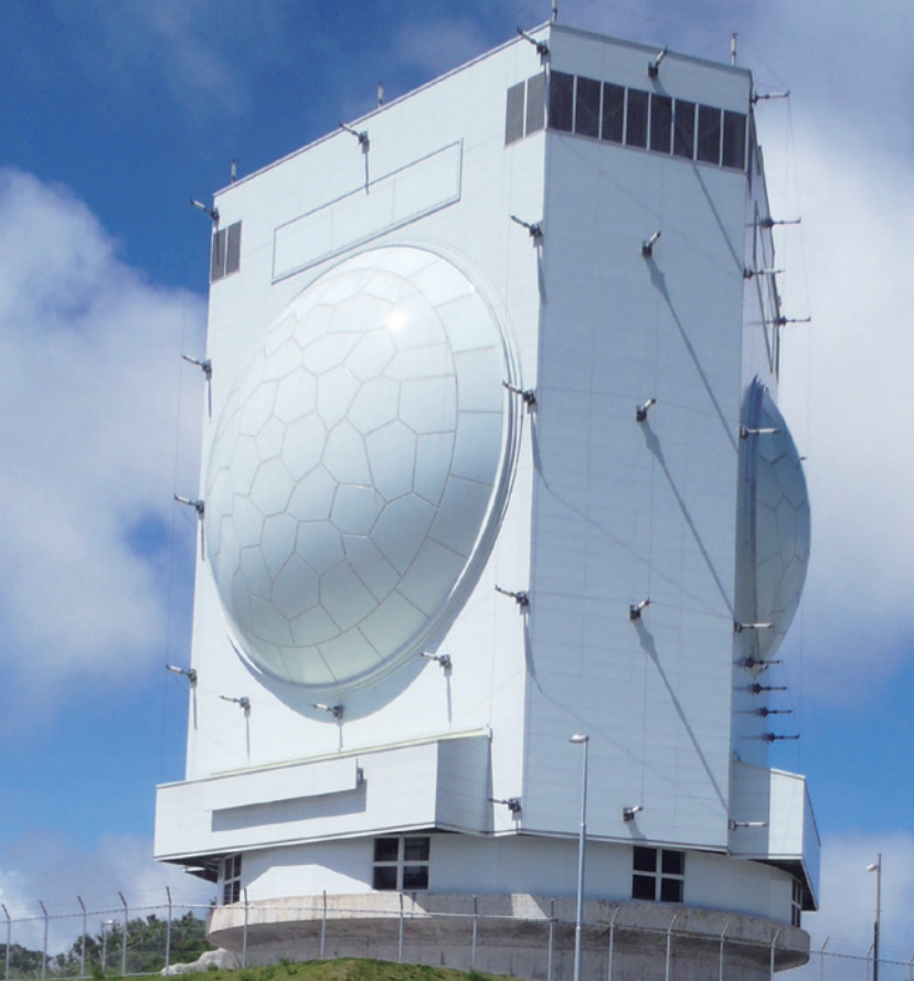 JFPS-5 (A radar enables the detection and tracking of ballistic missiles)